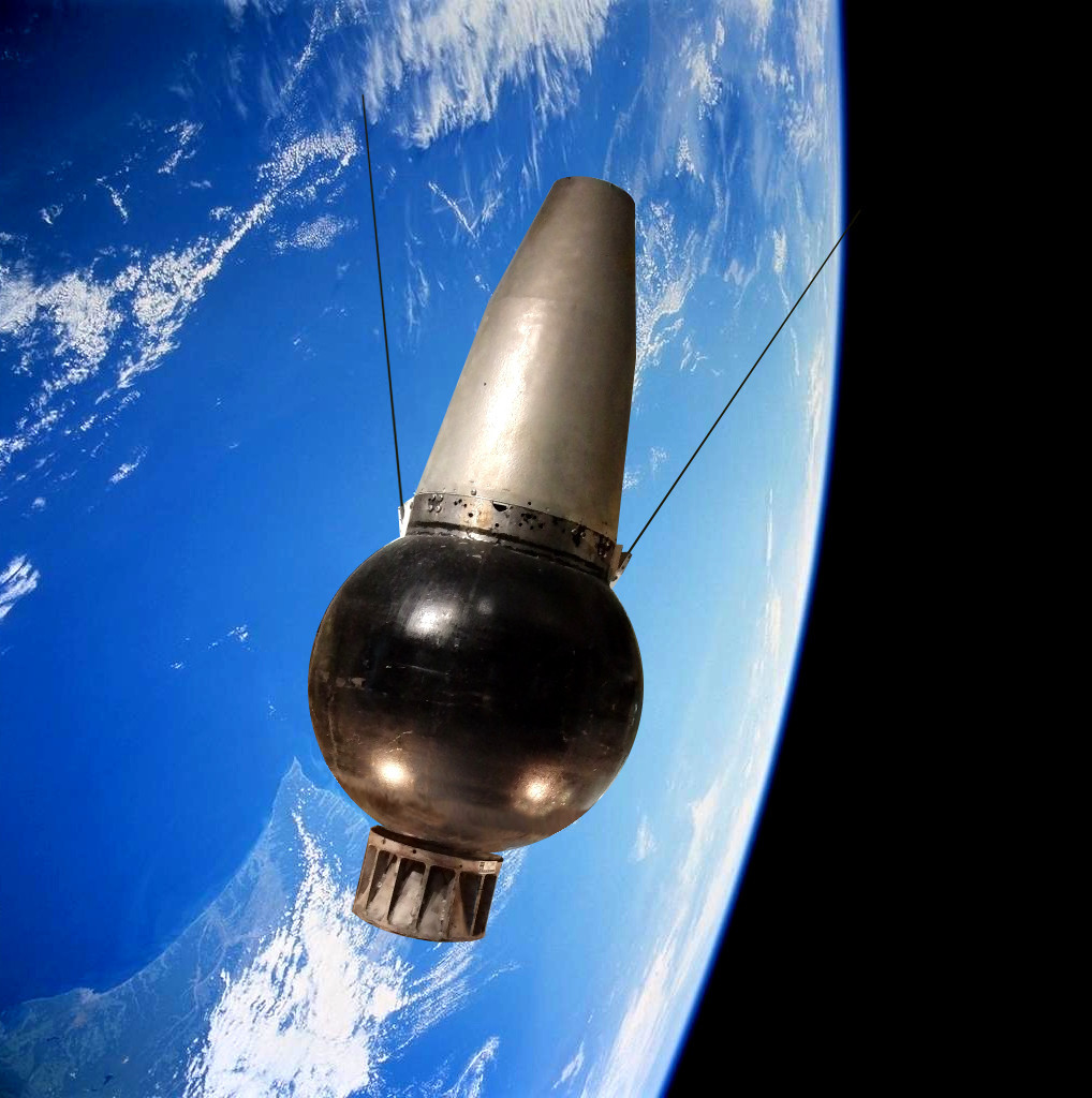 Ohsumi satellite in orbit. Satellite image modified from Background is NASA image in the public domain.